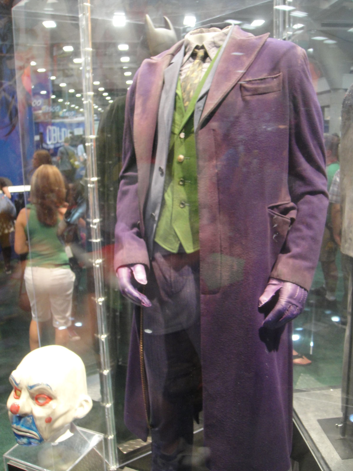 Joker (comics)|The Joker costume from the film The Dark Knight displayed at the 2011 Comic-Con International.